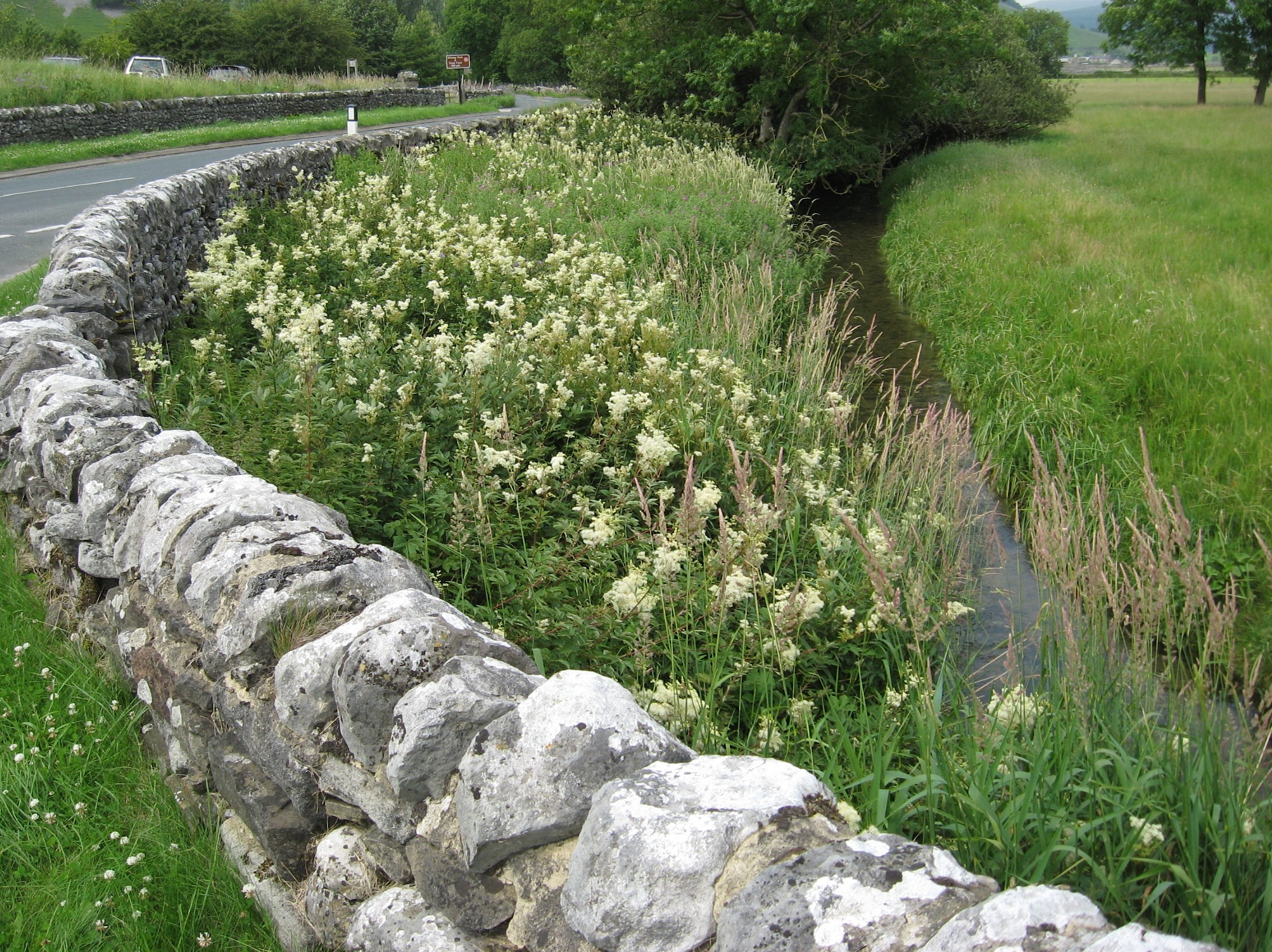 Meadowsweet flowering along beck nr Conistone, North Yorkshire